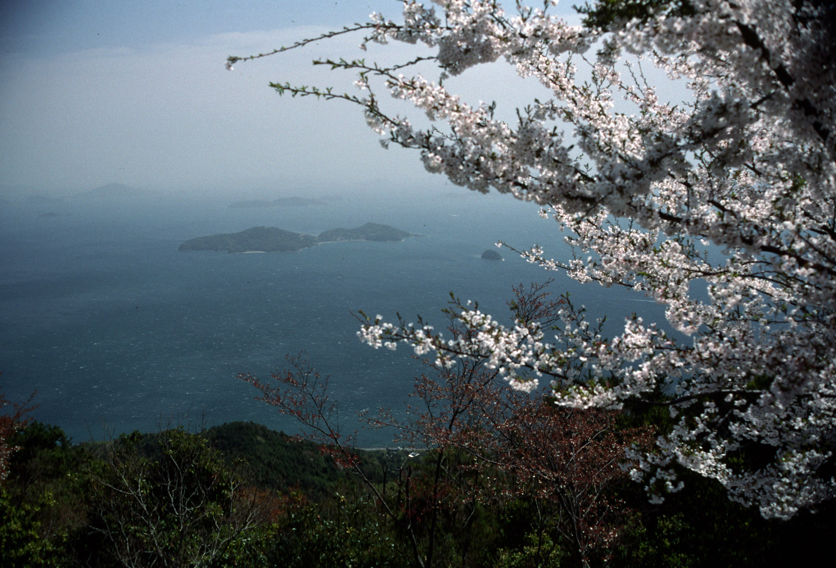 Seto-naikai (Inland Sea, Seto Inland Sea) from Mt. Zenitsubo, Yamaguchi Prefecture, Japan. I took the photo.